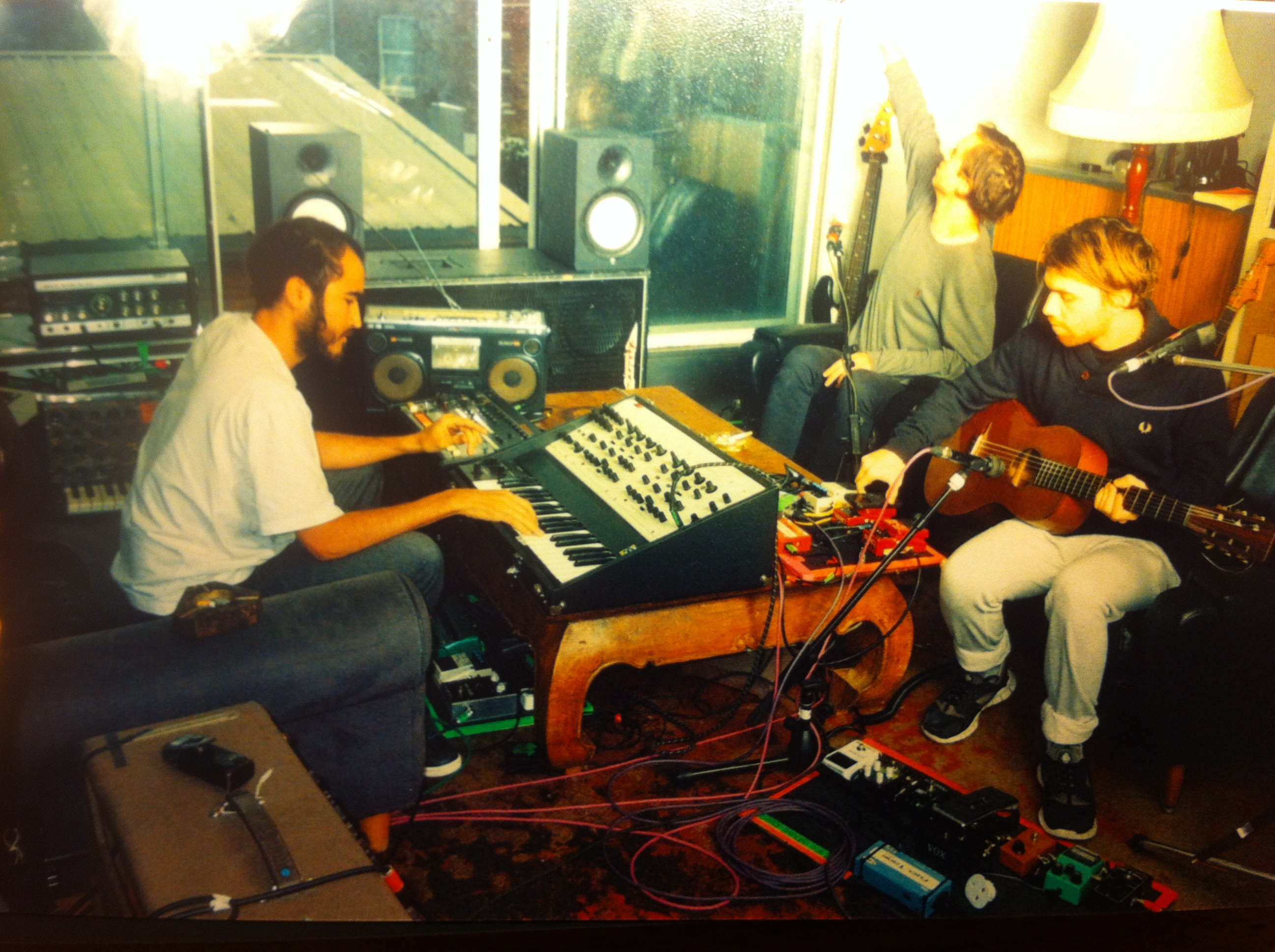 Psychadelic/Dance band Jagwar Ma rehearsing, from right to left. Gabriel Winterfield, Jack Freeman and Jono Ma.